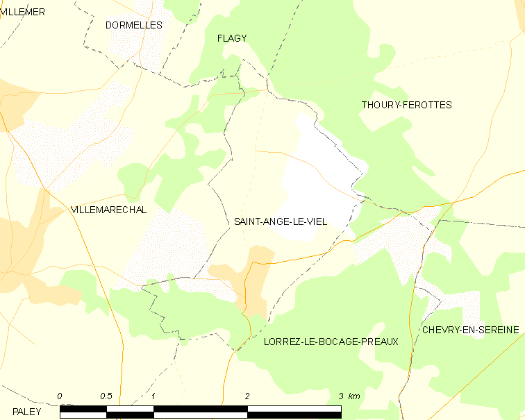 Map of French municipality Saint-Ange-le-Viel